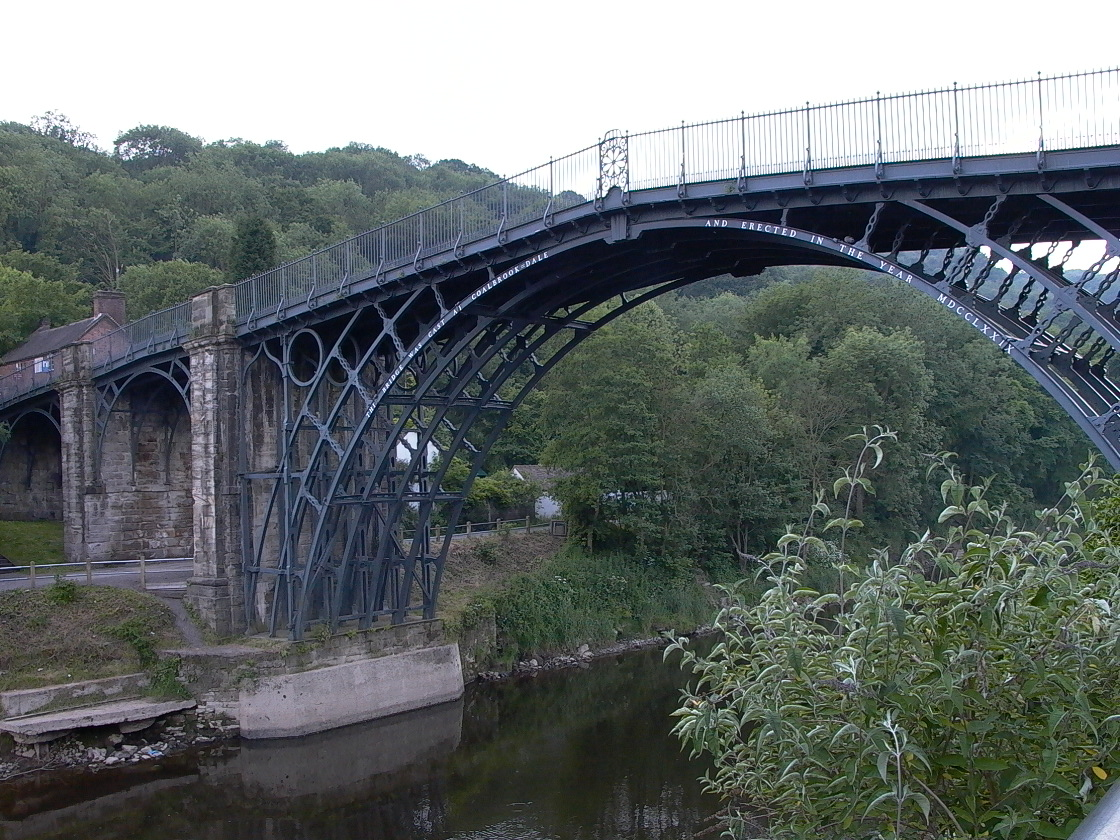 The Iron Bridge, near Coalbrookdale, UK (1779).